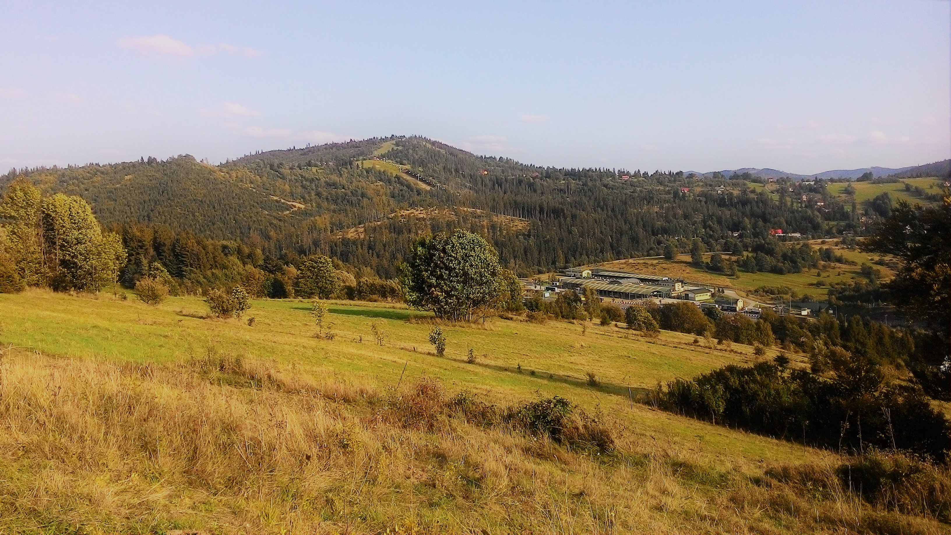 View from Sołowy Wierch on Rachowiec mount and the former border crossing Zwardoń–Skalité.